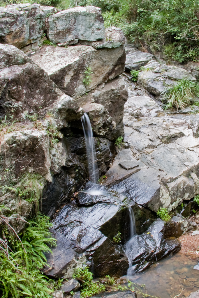 Make - Canon X-Resolution - 240 dpi Y-Resolution - 240 dpi Date and Time (Modified) - 2010:03:14 23:32:22 Artist - YCbCr Positioning - Centered ISO Speed - 100 Exif Version - 0221 Date and Time (Original) - 2010:03:14 12:45:13 Date and Time (Digitized) - 2010:03:14 12:45:13 Components Configuration - Y, Cb, Cr, - Exposure Bias - 0 EV Max Aperture Value - 4.0 Metering Mode - Multi-segment Sub Sec Time Original - 00 Sub Sec Time Digitized - 00 Flashpix Version - 0100 Color Space - Uncalibrated Focal Plane X-Resolution - 4438.356164 Focal Plane Y-Resolution - 4445.969136 Focal Plane Resolution Unit - inches Custom Rendered - Normal Exposure Mode - Auto White Balance - Auto Scene Capture Type - Standard Application Record Version - 2 By-line - IPTCDigest - 2922308ab8666250444176af84427837 XMPToolkit - Adobe XMP Core 4.2-c020 1.124078, Tue Sep 11 2007 23:21:40 Firmware - 1.1.1 Flash Compensation - 0 Image Number - 0 Creator